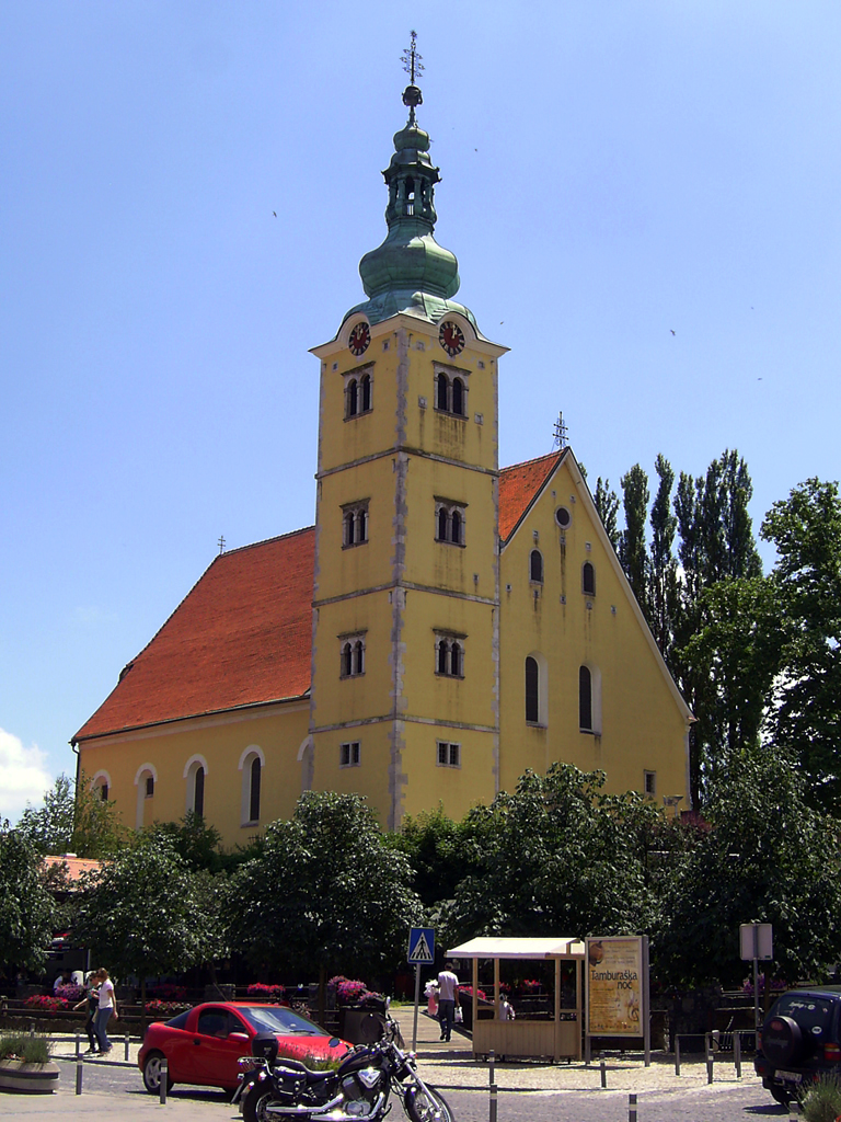 Church of Saint Anastazia.